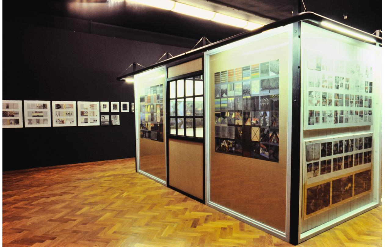 Centraal Museum Aad van Houwelingen